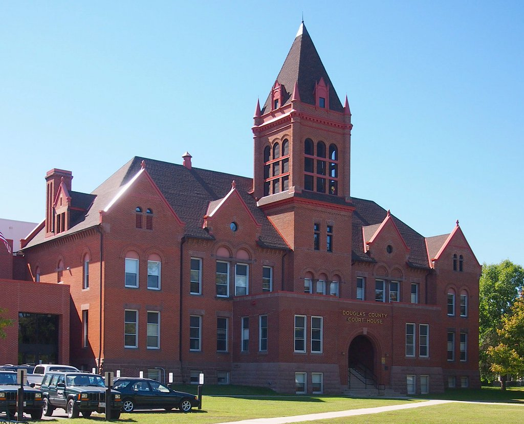 Douglas County Courthouse, 320 7th Ave W, Alexandria, Minnesota, USA. Viewed from the northeast.